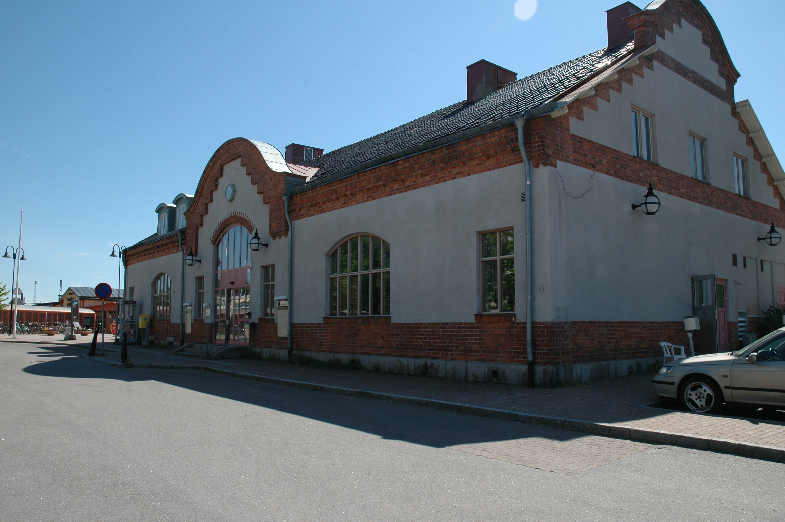 Pictures from the "Bergslagssafari" that Swedish Wikipedia performed between 4th and 6th of June 2010.